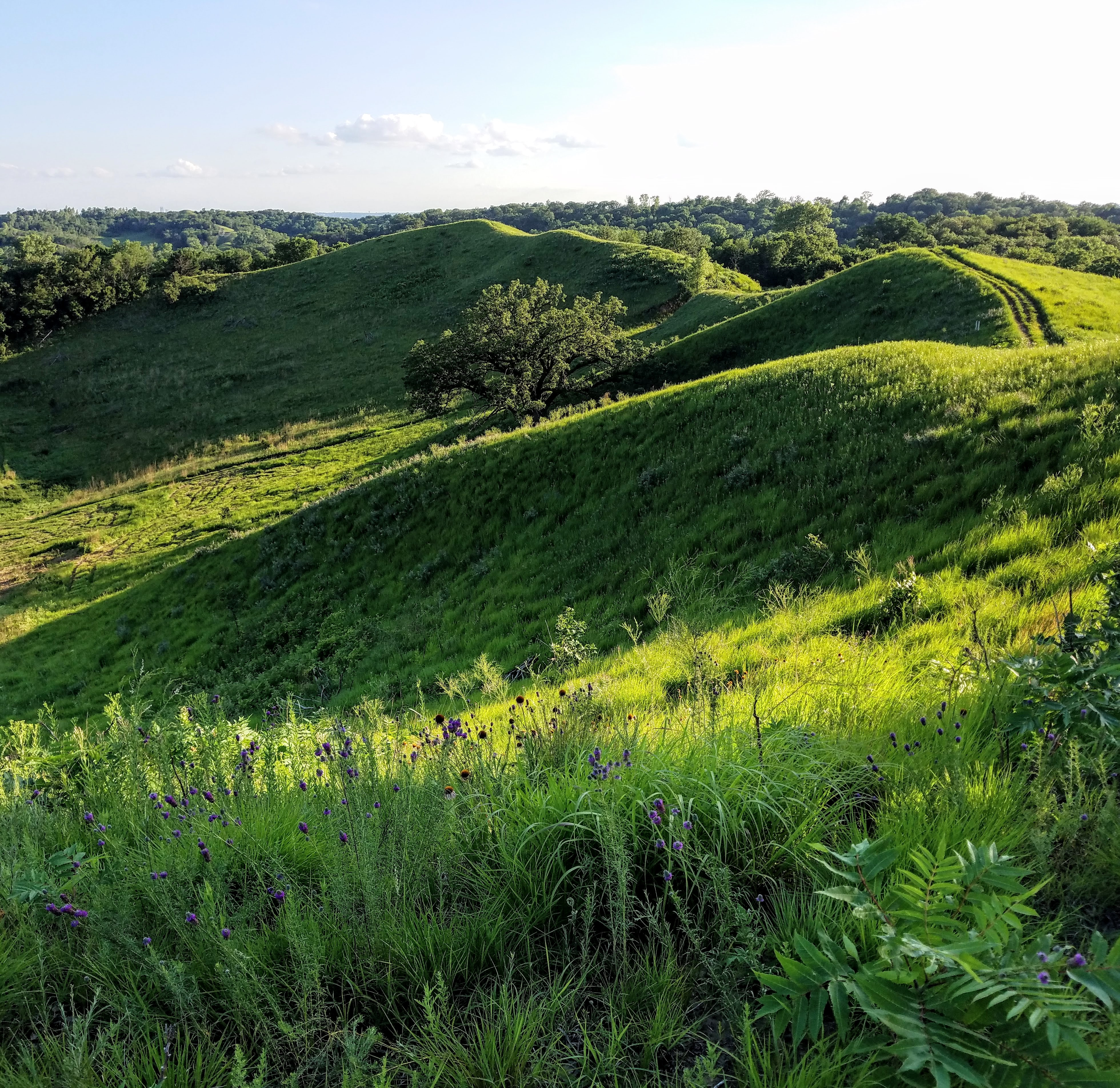 Loess prairie at Hitchcock Nature Center in western Iowa. Plants identifiable in the photo include Rhus glabra, Dalea purpurea, Echinacea angustifolia, and Dalea enneandra.